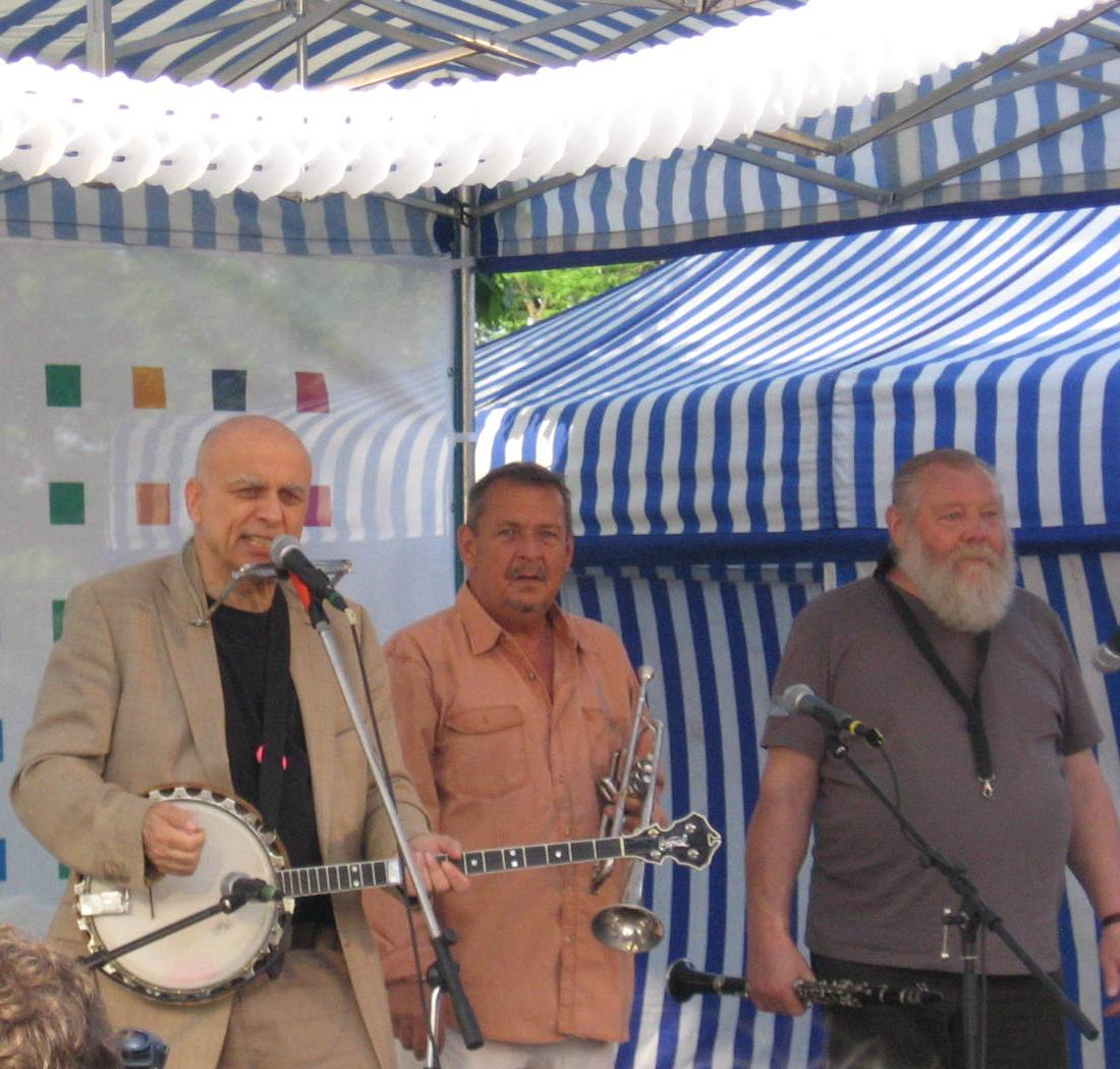 Czech singers and musicians Ivan Mládek (left) and Ivo Pešák (right)